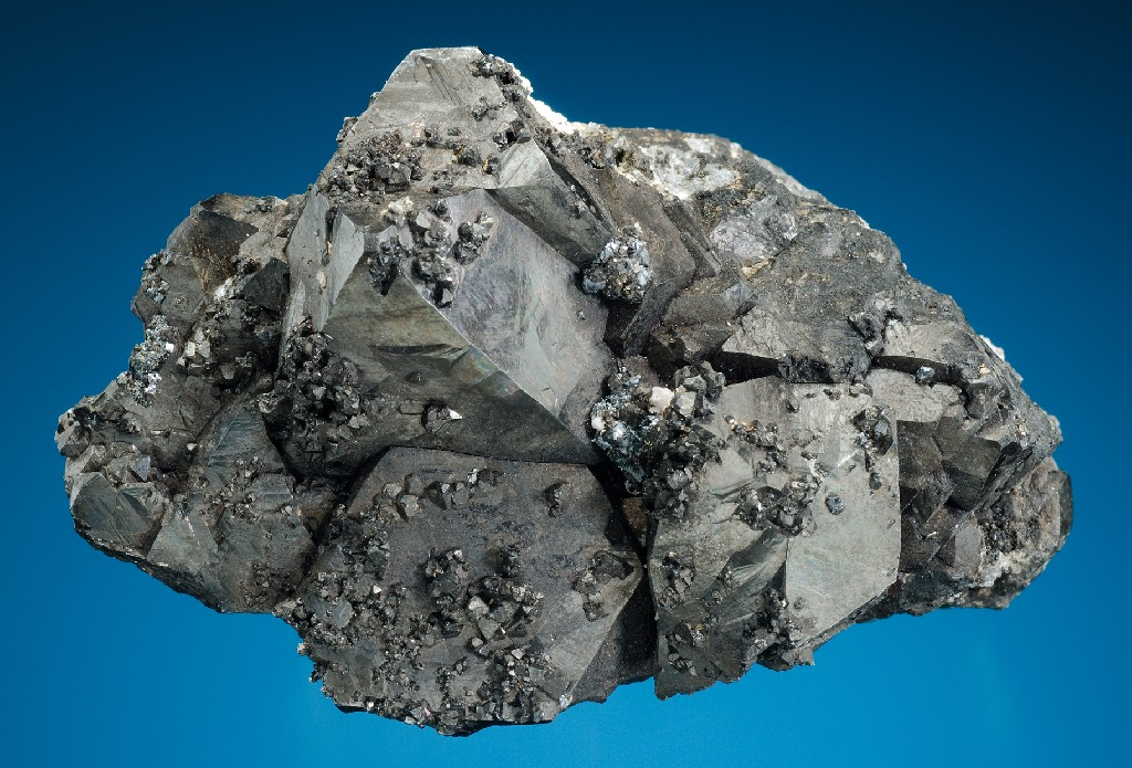 Alabandite - Locality: Uchucchacua Mine, Oyon Province, Lima Department, Peru - A cluster of alabandite crystals, the largest of which is about 2.5 cm. The specimen is 7.5 x 3.8 cm. The small crystals growing on the larger ones are also alabandite. There are some small crystals of proustite and another unknown minerals also on the specimen but not readily apparent on the photo. The specimen is in the collection of Bill Pinch, of Tucson Arizona. The specimen was purchased in Lima Peru by Jaroslav Hyrsl from an old collection. It was by far the best specimen of the species in the collection. It is not known how many specimens of alabandite that Uchucchacua has produced but if it has produced many alabandite specimens, few of them have survived. The miners know to look for and save rhodochrosite and silver speckmens from the mine, but black minerals like alabandite are most likely to just be run through the crushers or thrown out on the dump.